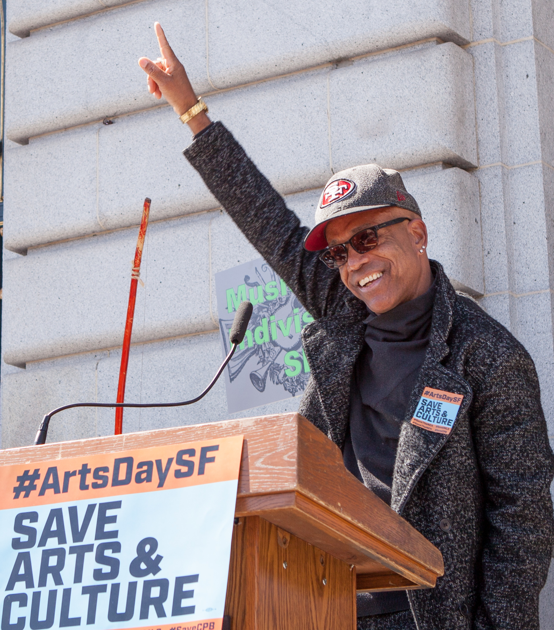 Idris Ackamoor of Cultural Odyssey speaks in front of San Francisco City Hall for San Francisco Arts Advocacy Day, March 21, 2017.